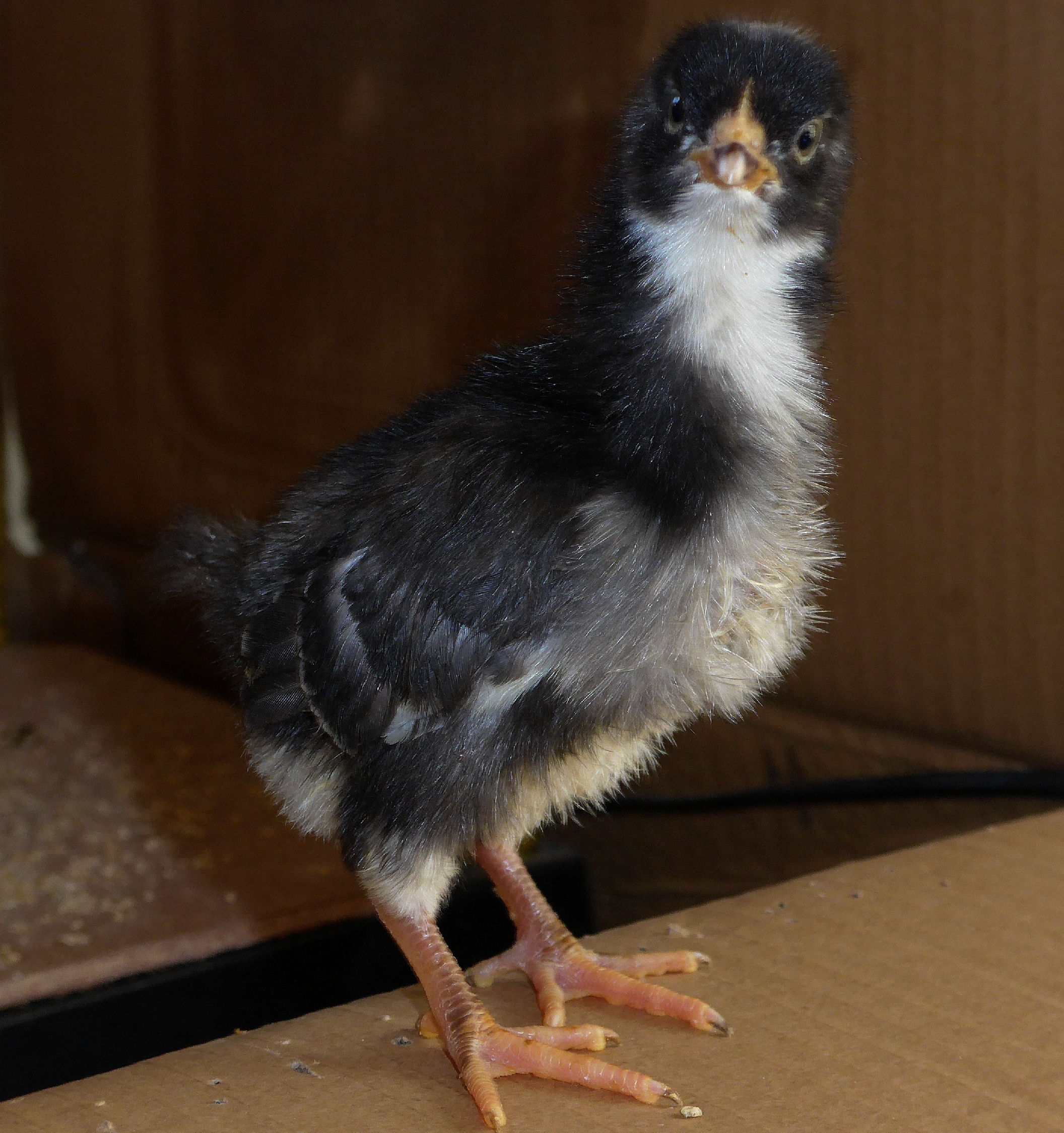 Amrock, chick, hen, 8 days